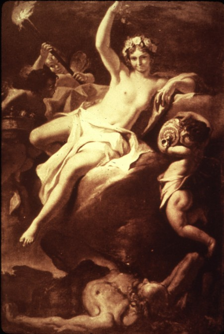 Eos